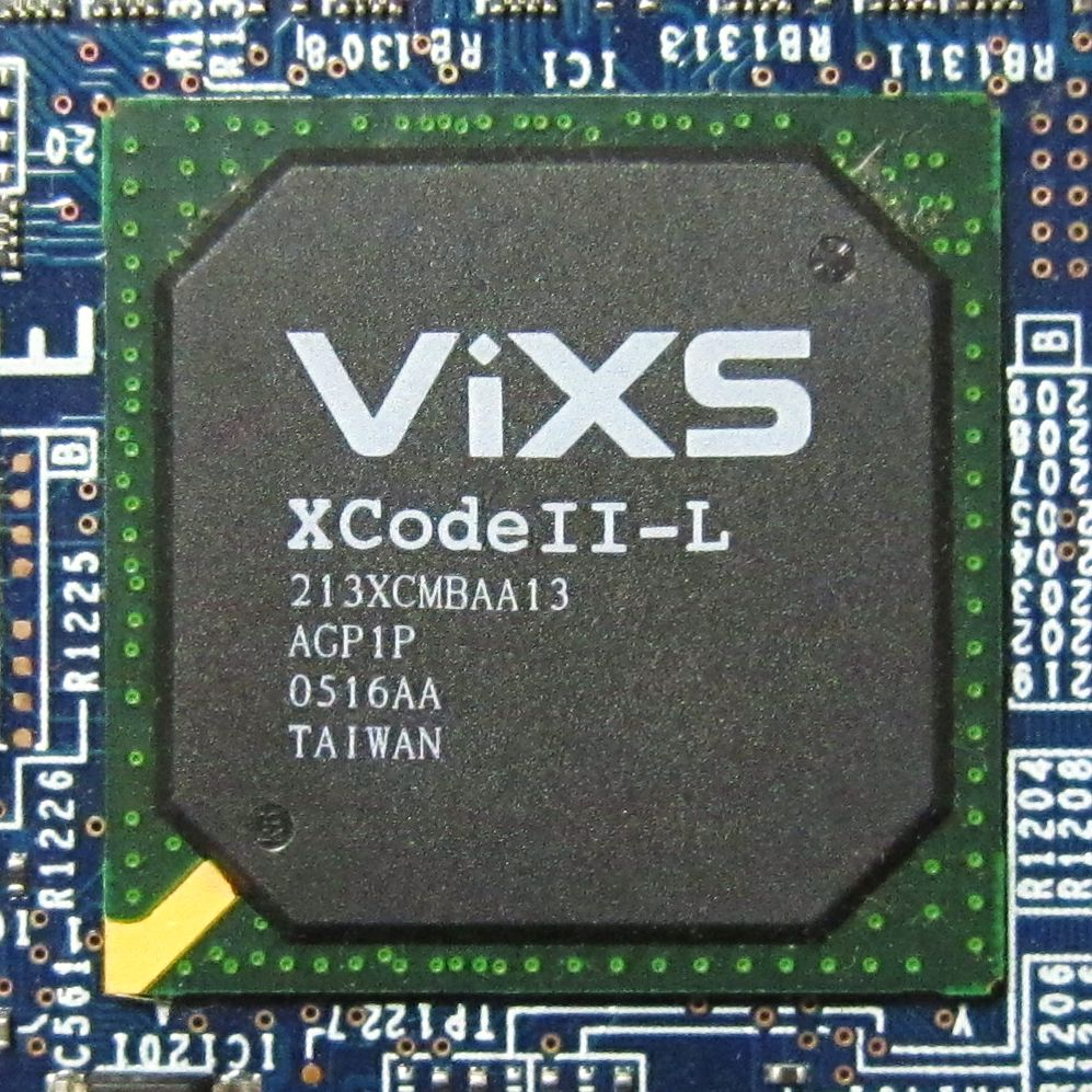 ViXS XCode II-L.